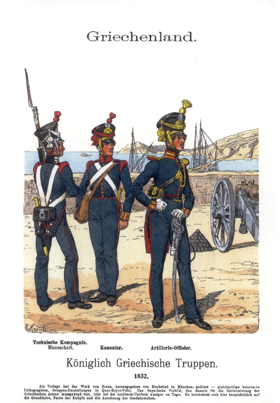 Artillerymen of the Hellenic Army in the first years of the reign of King Otto (1832-1863). L-R: sergeant of an engineer company; gun-crewman; Artillery officer (Lieutenant).